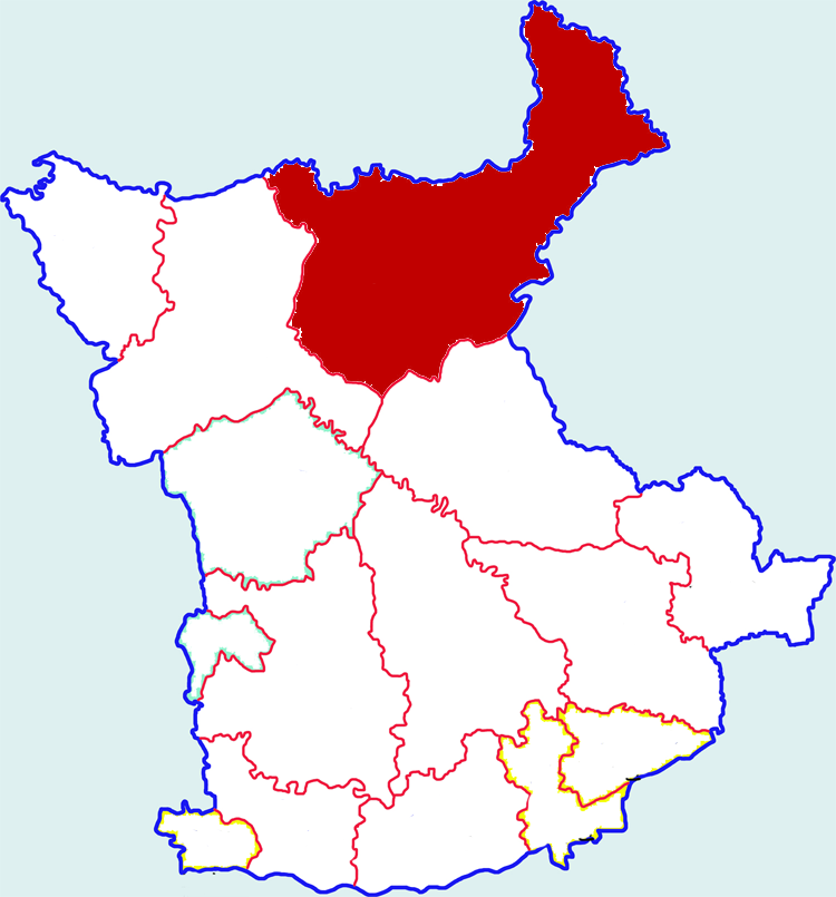 Location of Xunyi county in Xianyang city, China